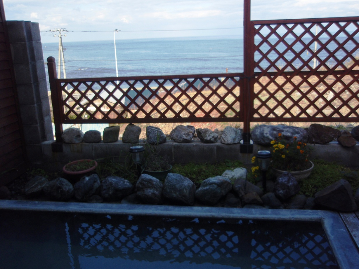 Motta Kaigan Onsen in Shimamaki, Hokkaido.